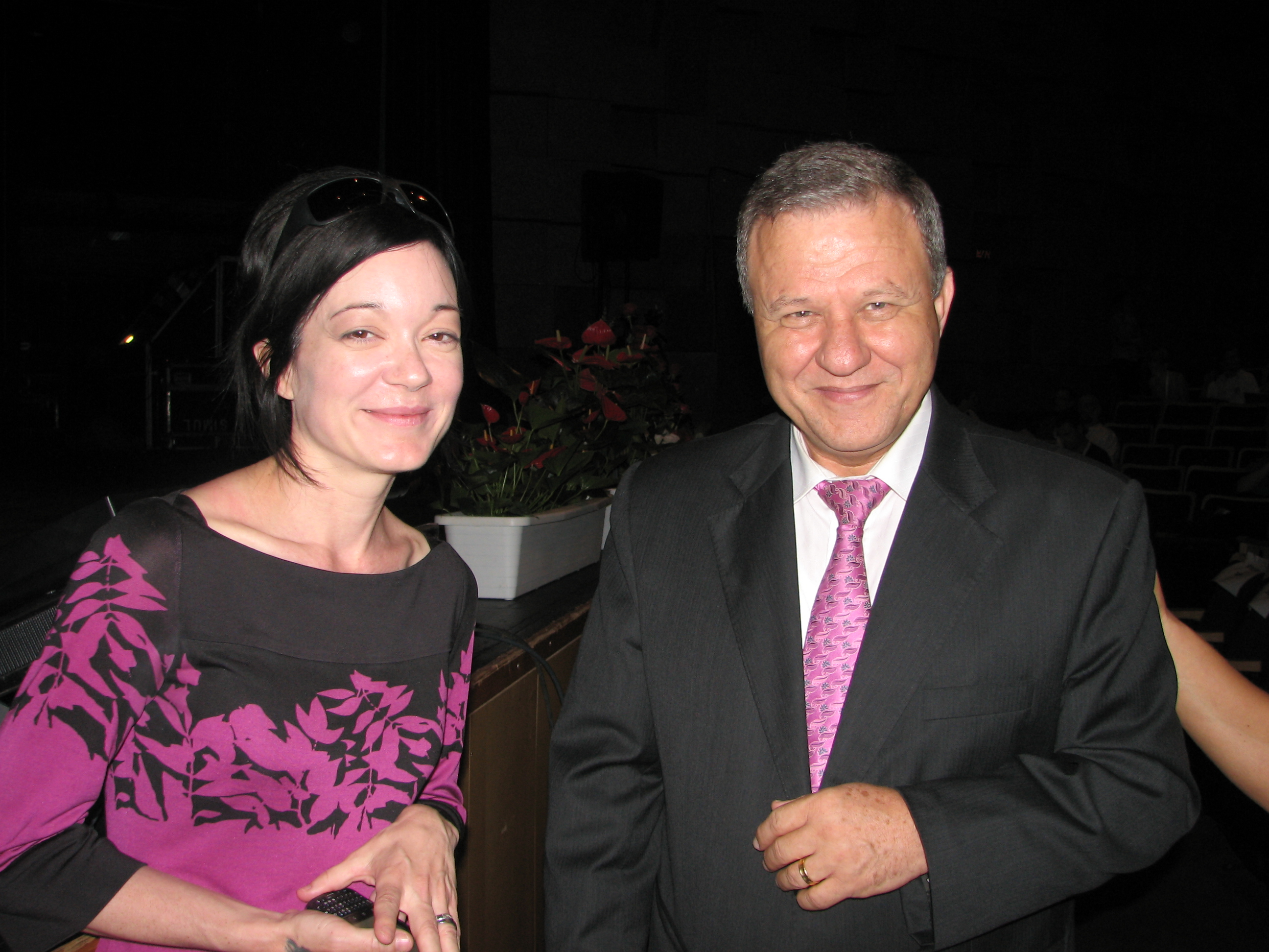 Wikimedia Foundation Executive Director Sue Gardner with Meir Sheetrit, member of the Israeli Knesset, at Wikimania 2011 in Haifa, Israel.